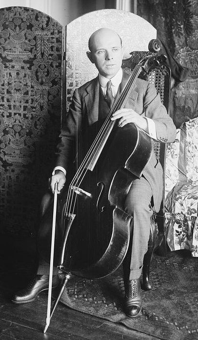 Spanish cellist and conductor Pablo Casals (1876-1973)